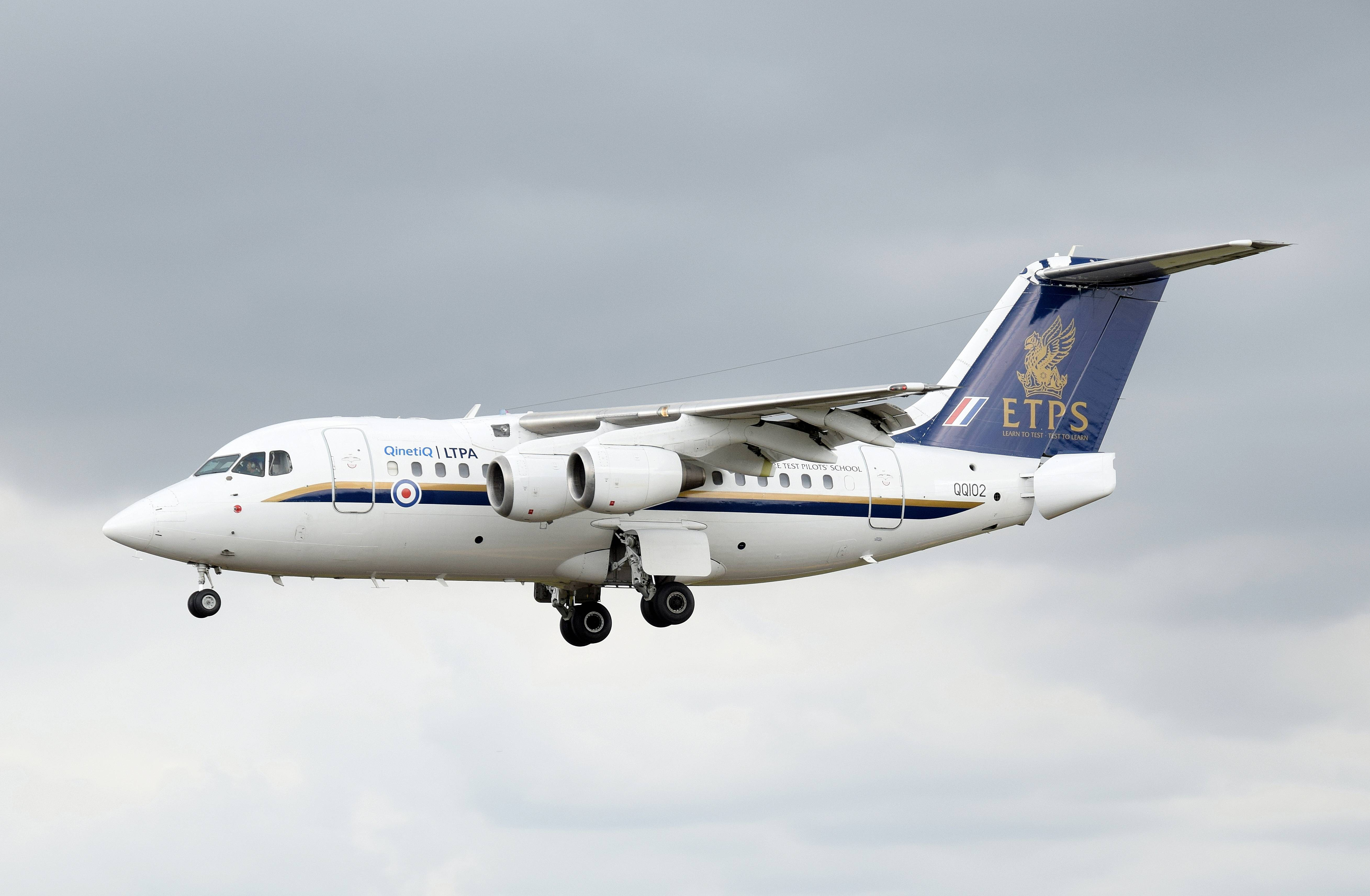 Qinetiq/ETPS BAe Avro 146-RJ70 (code QQ102) arrives at the 2017 Royal international Air Tattoo, RAF Fairford, England